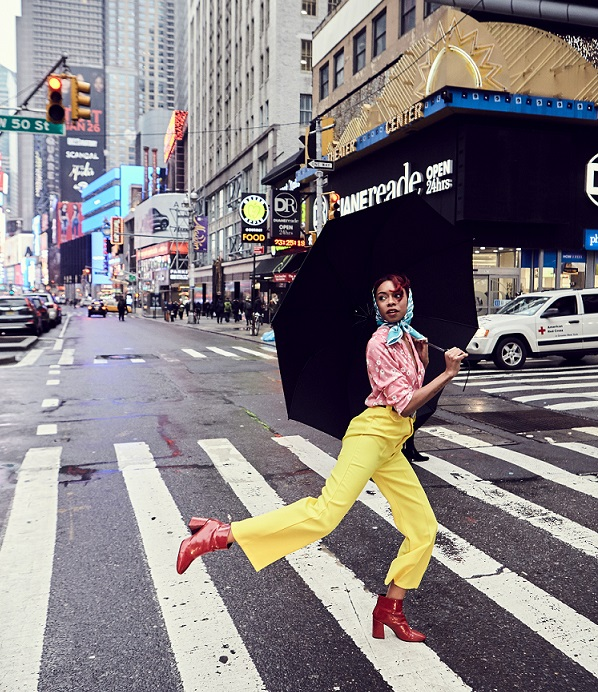 Atlantic Records publicity photo of Ravyn Lenae from 2017.